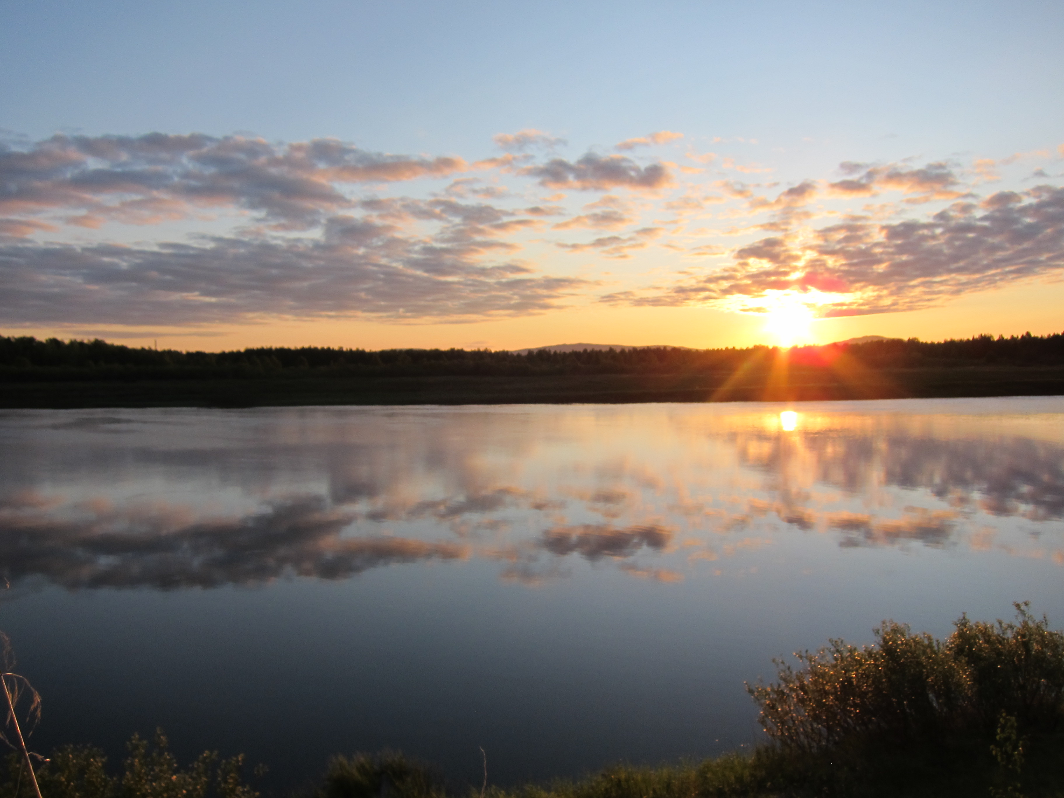 A midnight sun or "polar day" seen at 12:05 am at an unidentified location within the Arctic Circle.